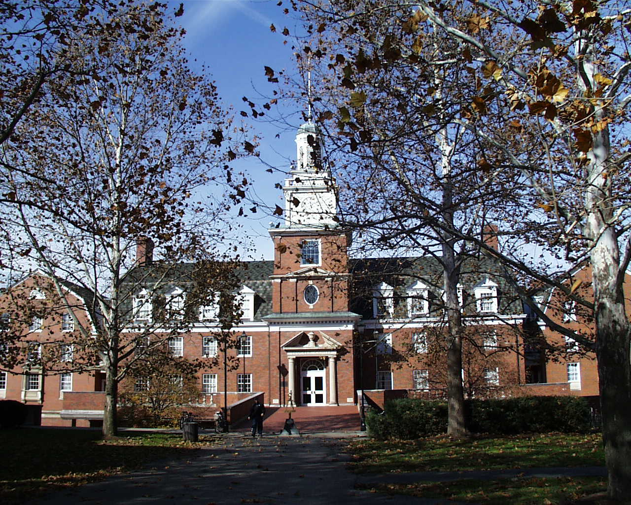 Taken from the English Wikipedia. Original Description: Stocker Center at Ohio University. Original History: 16:09, 19 February 2006 . . Ottawa80 (Talk) . . 1280x1024 (290428 bytes) (Stocker Center at Ohio University.)